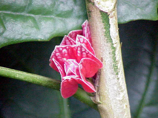 Species: Goethea cauliflora Family: Malvaceae Image No. 1